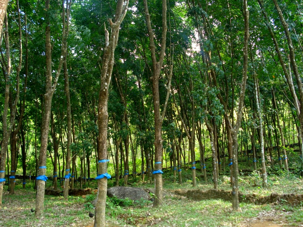 Rubber cultivation